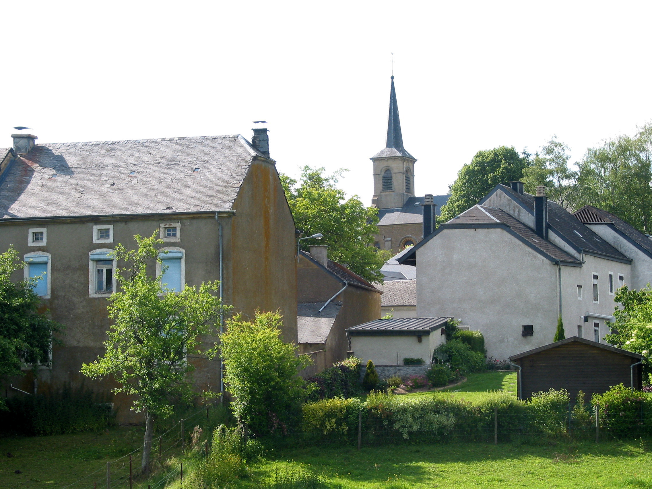 Tontelange (Belgium), the neighbourhood of the church.